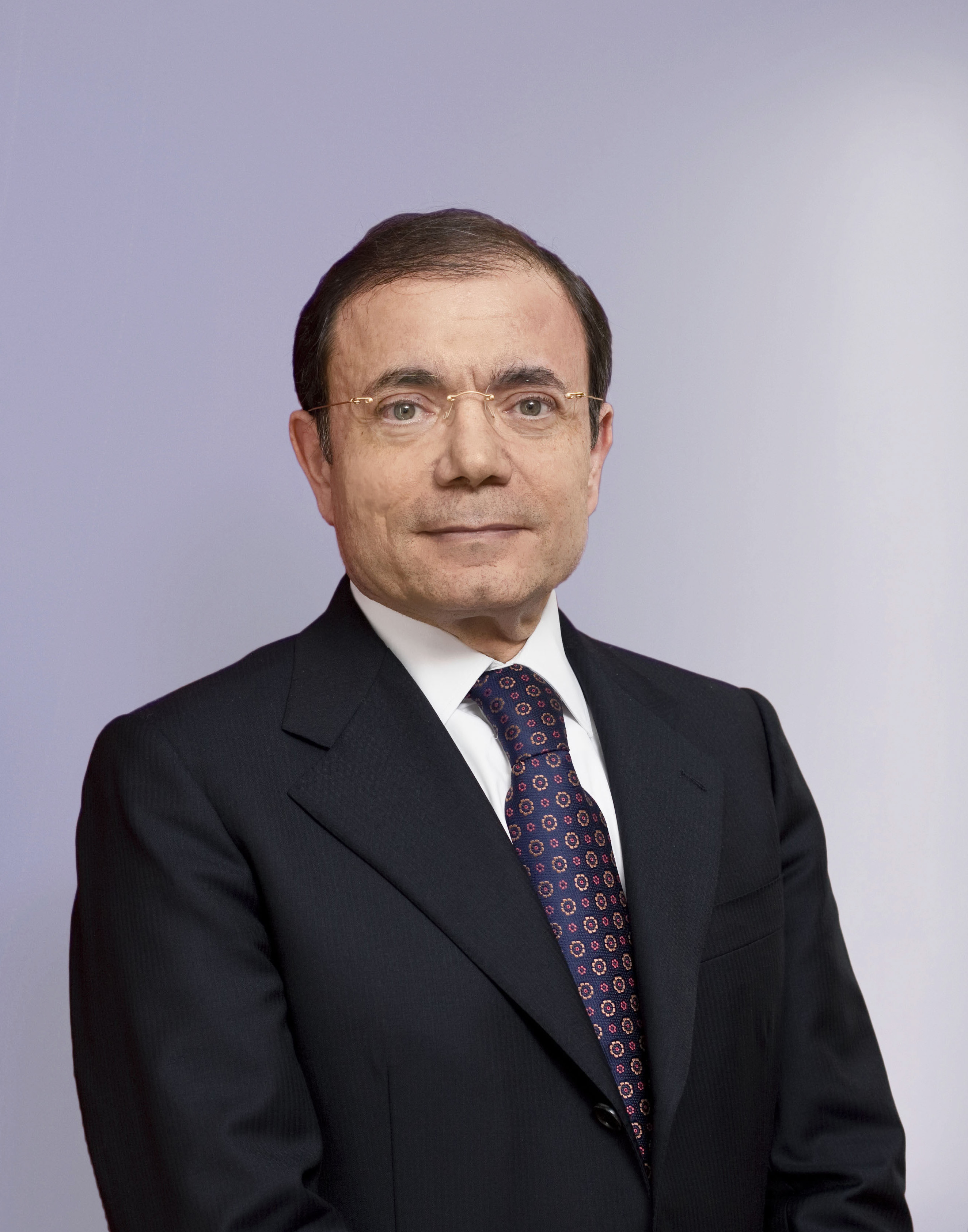 Jean-Charles Naouri, CEO of Casino Group.